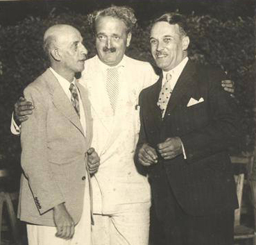 Mayor of Athens Konstantinos Kotzias (center) with Greek conductors Dimitri Mitropoulos (left) and Filoktitis Oikonomidis (right)